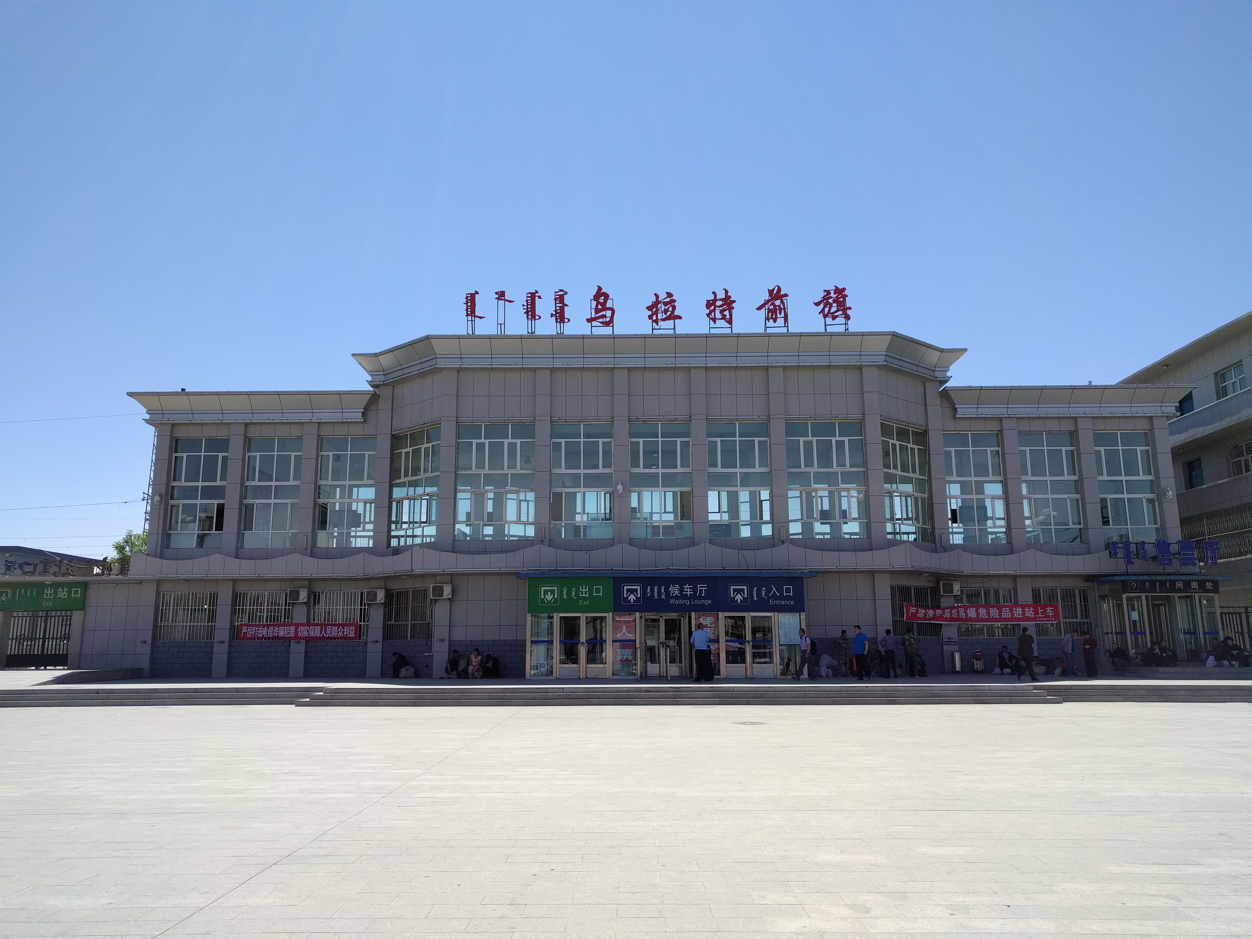 Wulateqianqi (Urad Front Banner) railway station in Bayannur, Inner Mongolia, China